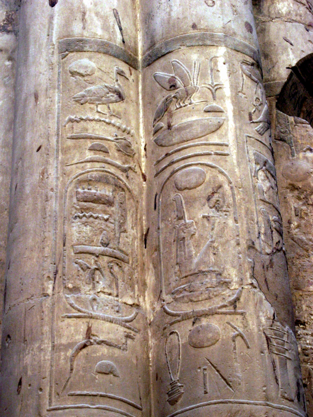 Cartouches of Amenhotep III in Luxor Temple. IMG_7342